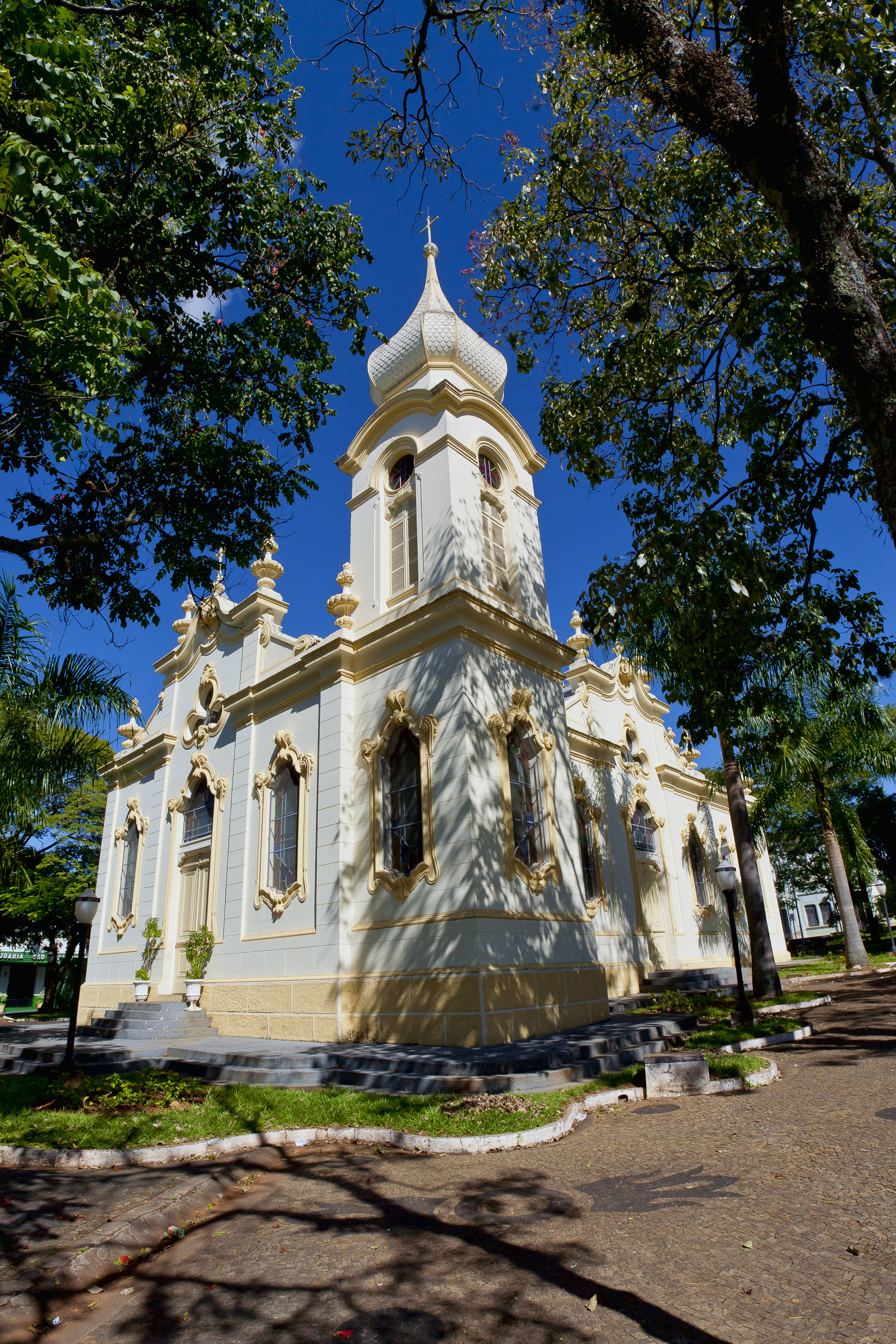 built in 1846,in 1919 it was demolished and rebuilt by a rich coffee farmer named Francisco Figueiredo, designed by Italian Architect Gherardo Bozzani in neo baroque and neo classic styles